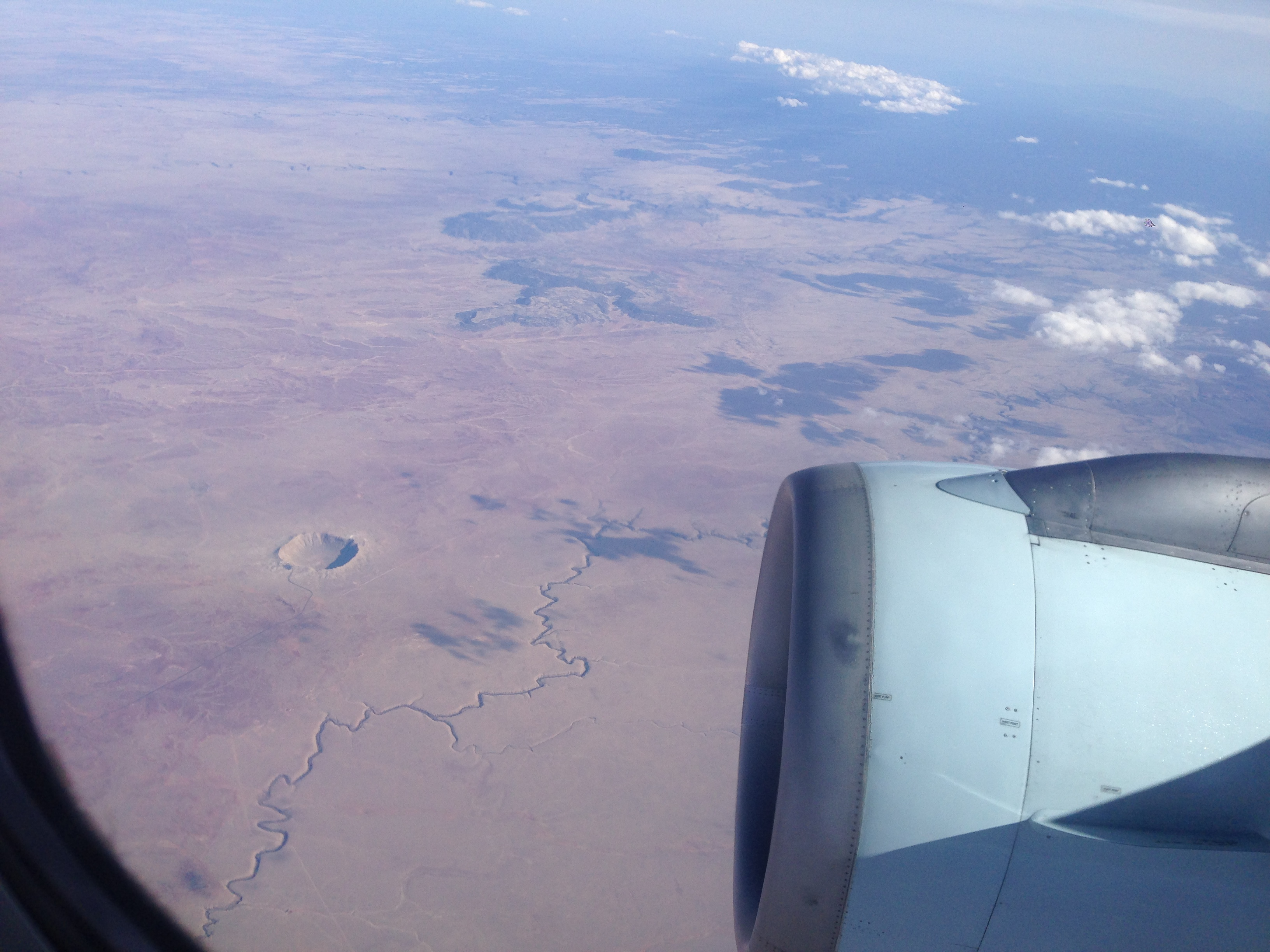 Enroute from Los Angeles to Toronto - March 28, 2014